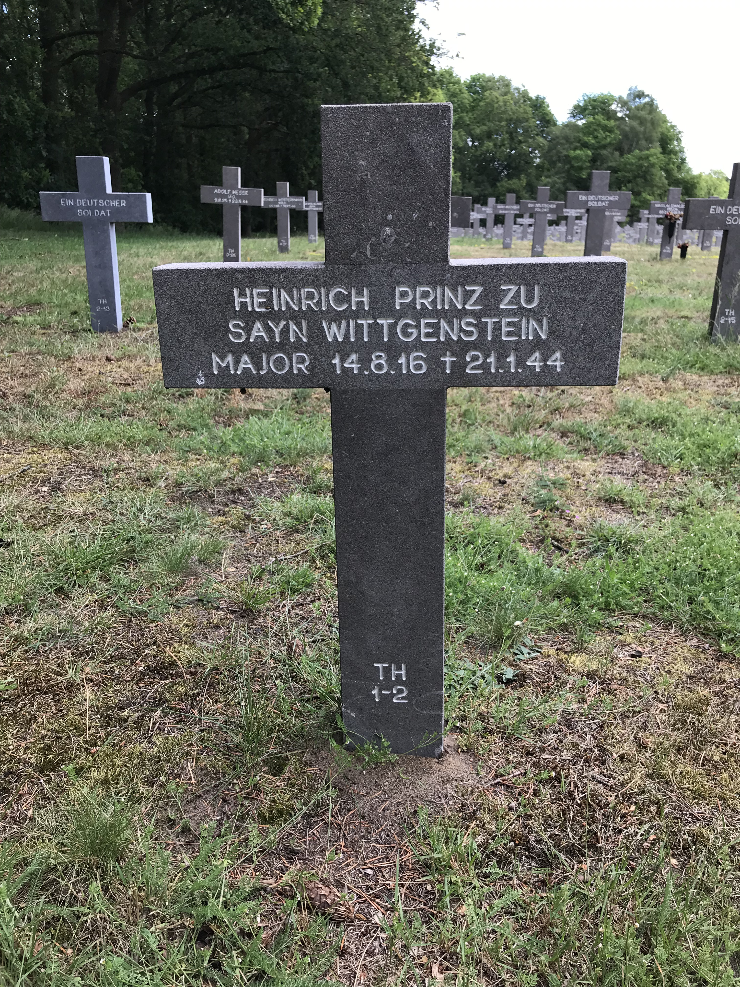 Grave of Heinrich Prinz zu Sayn Wittgenstein TH-1-2